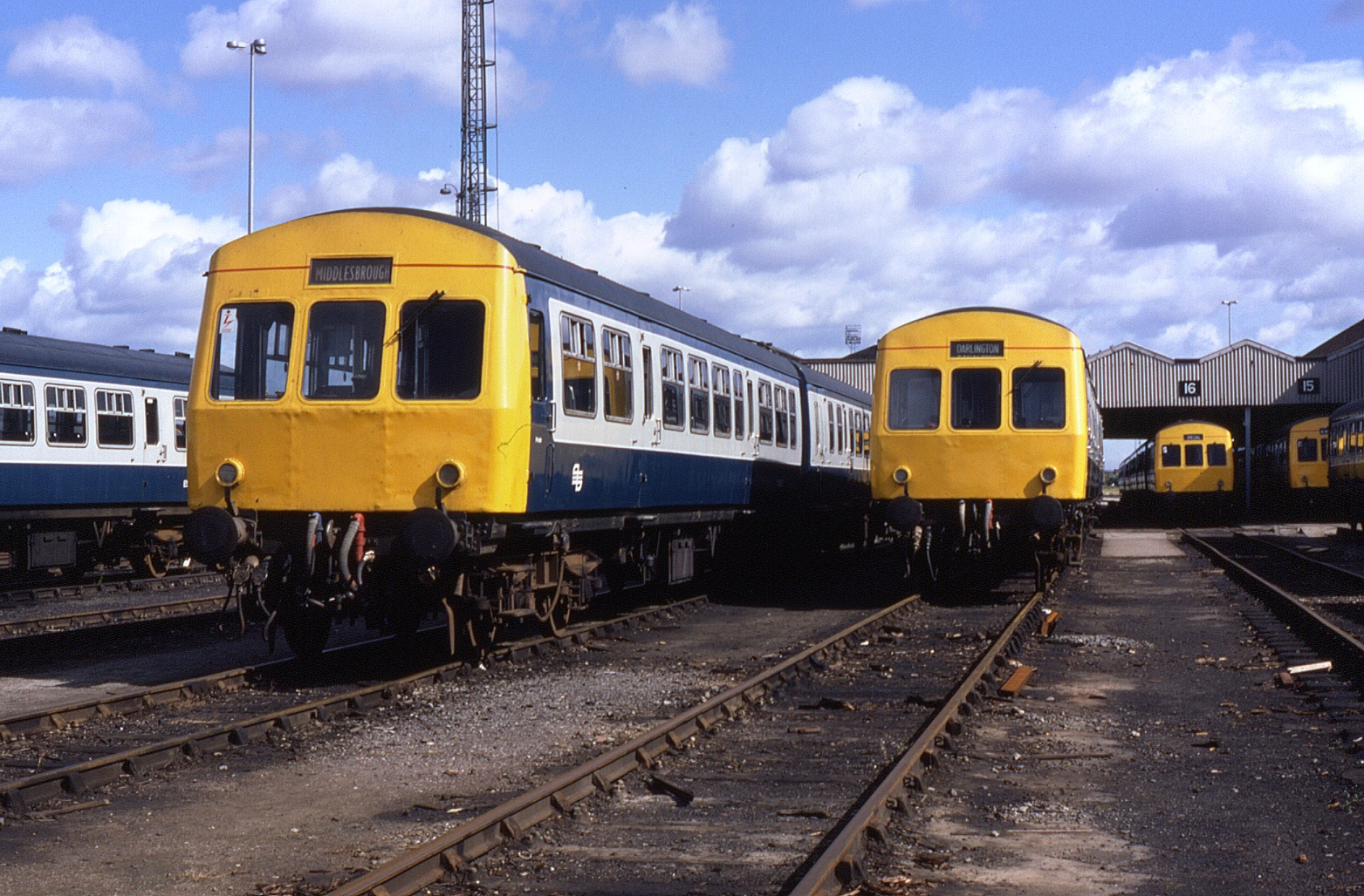 Weekend visit to Thornaby depot on 9 September 1984 saw several Metropolitan Cammell (MetCam) class 101 DMUs stabled.